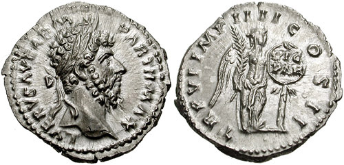 Lucius Verus. 161-169 AD. AR Denarius (20mm, 3.42 gm). Struck 166 AD. L VERVS AVG ARM PARTH MAX, laureate head right TRP VII IMP IIII COS II, Victory standing right, holding palm and placing shield inscribed VIC / PAR on palm tree. RIC III 566; BMCRE 431; RSC 279. EF.